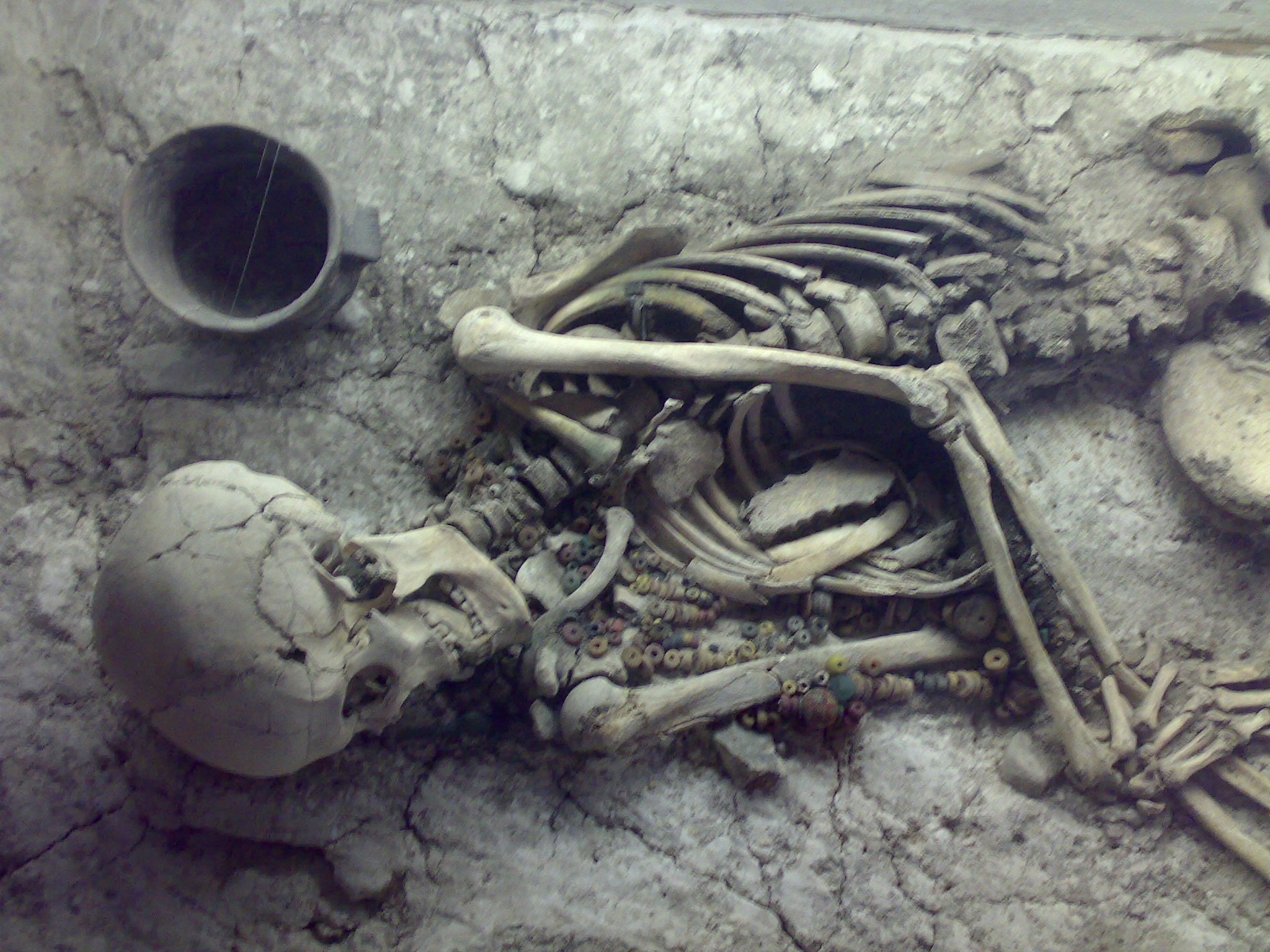 Iron Age find, woman from Aalborg c 400 BC